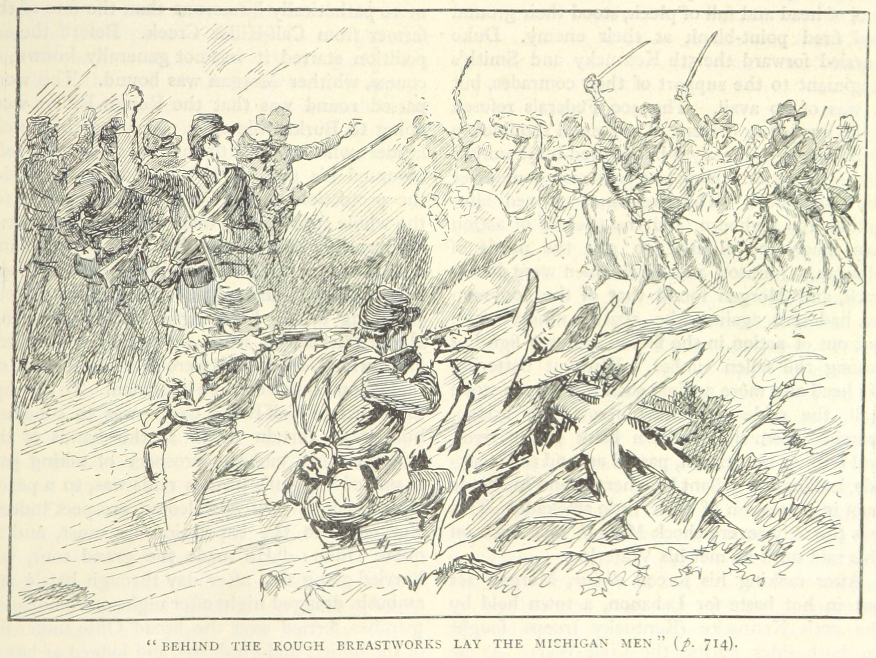 Soldiers of the 25th Michigan Infantry repulse John Hunt Morgan's cavalry on 4 July 1863 at the Battle of Tebbs Bend.